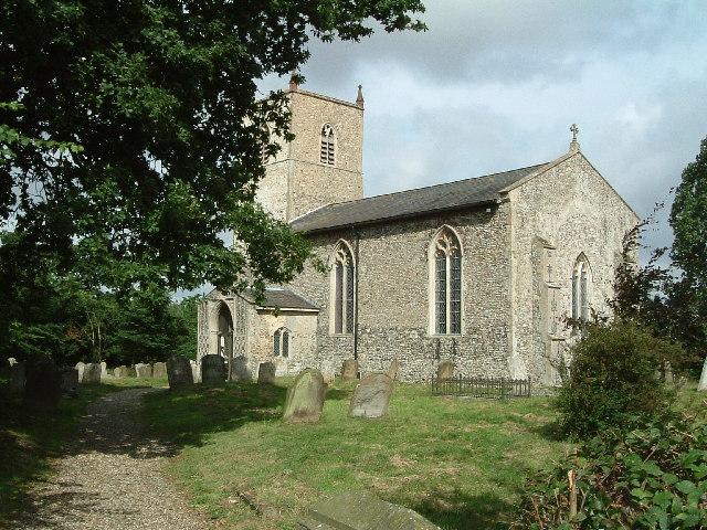 St. Andrew's Church, Westfield. Church & Churchyard at Westfield near East Dereham